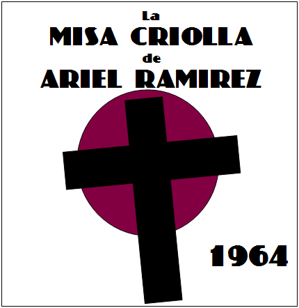 Cover for the "Misa Criolla", composed by Ariel Ramírez. Some of the musicians that participated in the album were Los Fronterizos, Jaime Torres, Chango Farías Gómez, Raúl Barboza, Luis Amaya, la Cantoría de la Basílica del Socorro, and an orchestra of regional musicians. Ariel Ramírez was also the artistic director of the album.